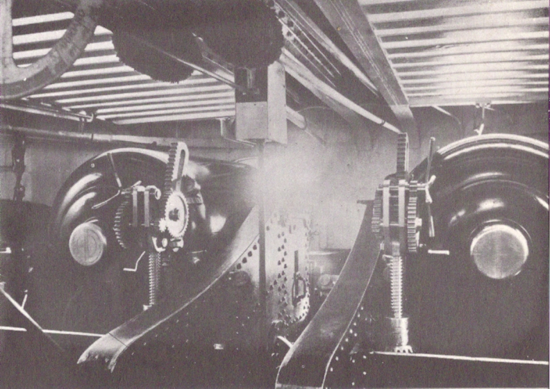 Photograph showing interior view of one of the two main battery turrets aboard the British battleship HMS Devastation, showing a rear view of the turret's two 12-inch (305 mm) 35-ton muzzle-loading rifles.